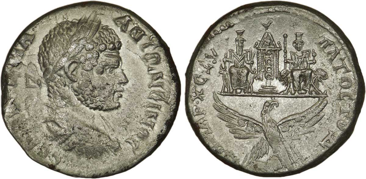 Monnaie frappée en la cité d'Hiérapolis